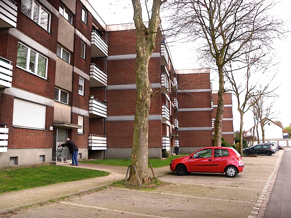 Tourcoing Street in Bottrop-Eigen (Germany), in honor of the city of Tourcoing in France.